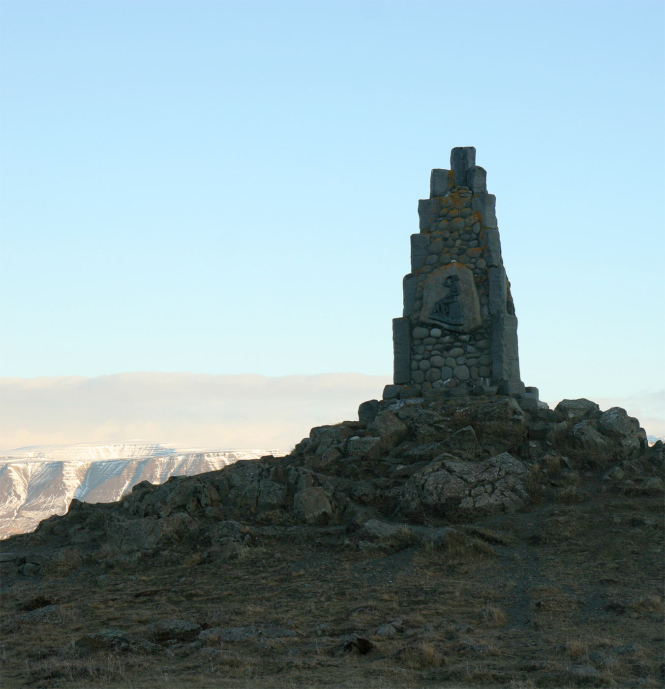 Monument to Stephan Stephansson (1853-1927), poet, emigree to Canada. Vatnsskarð, November 21 14:02 Iceland, November 2007 Photo by me user:debivort (or friend, with permission given to freely license photo).